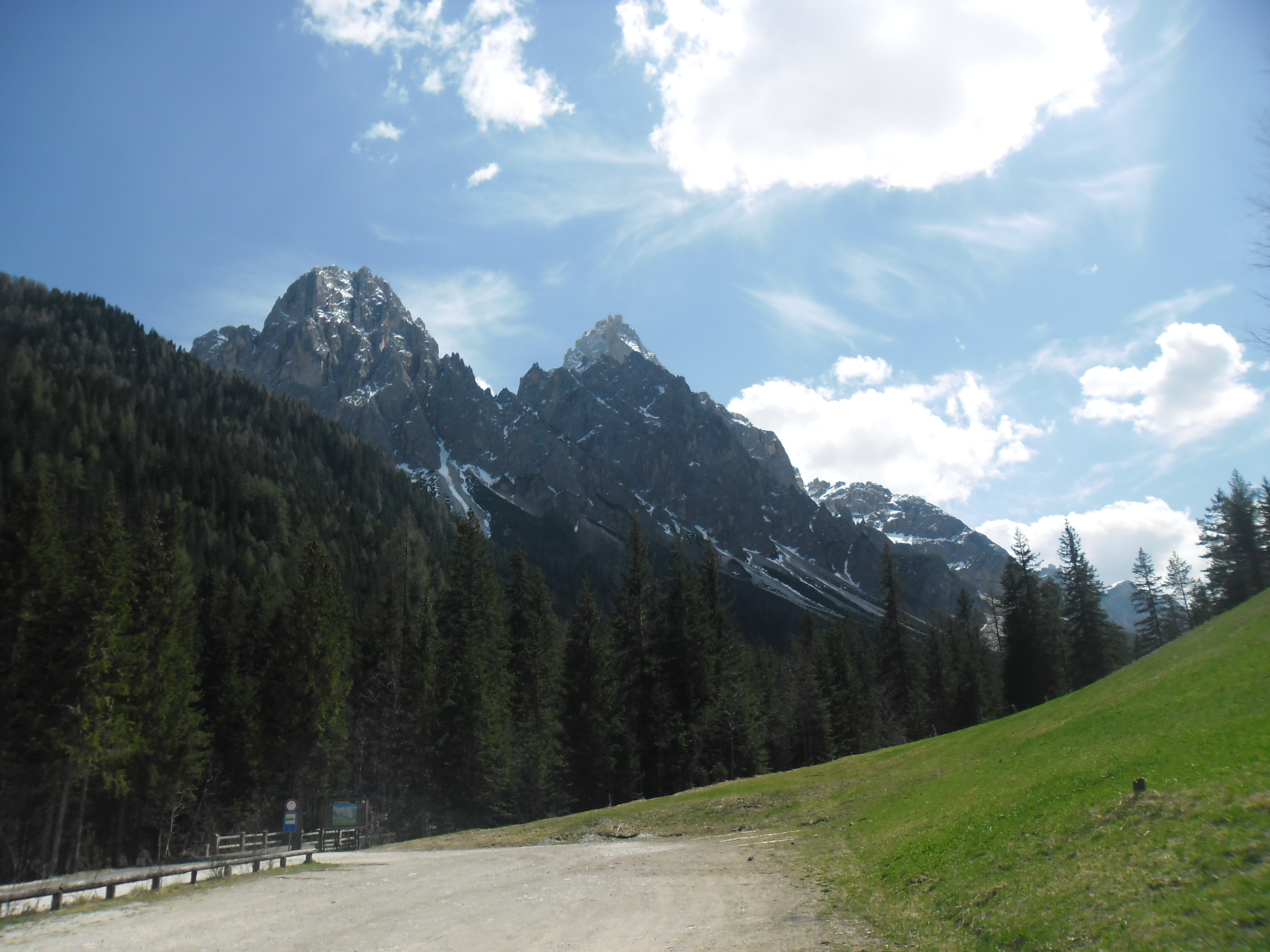 Car park in Innerfeld valley with Gsellknoten and Dreischusterspitze.